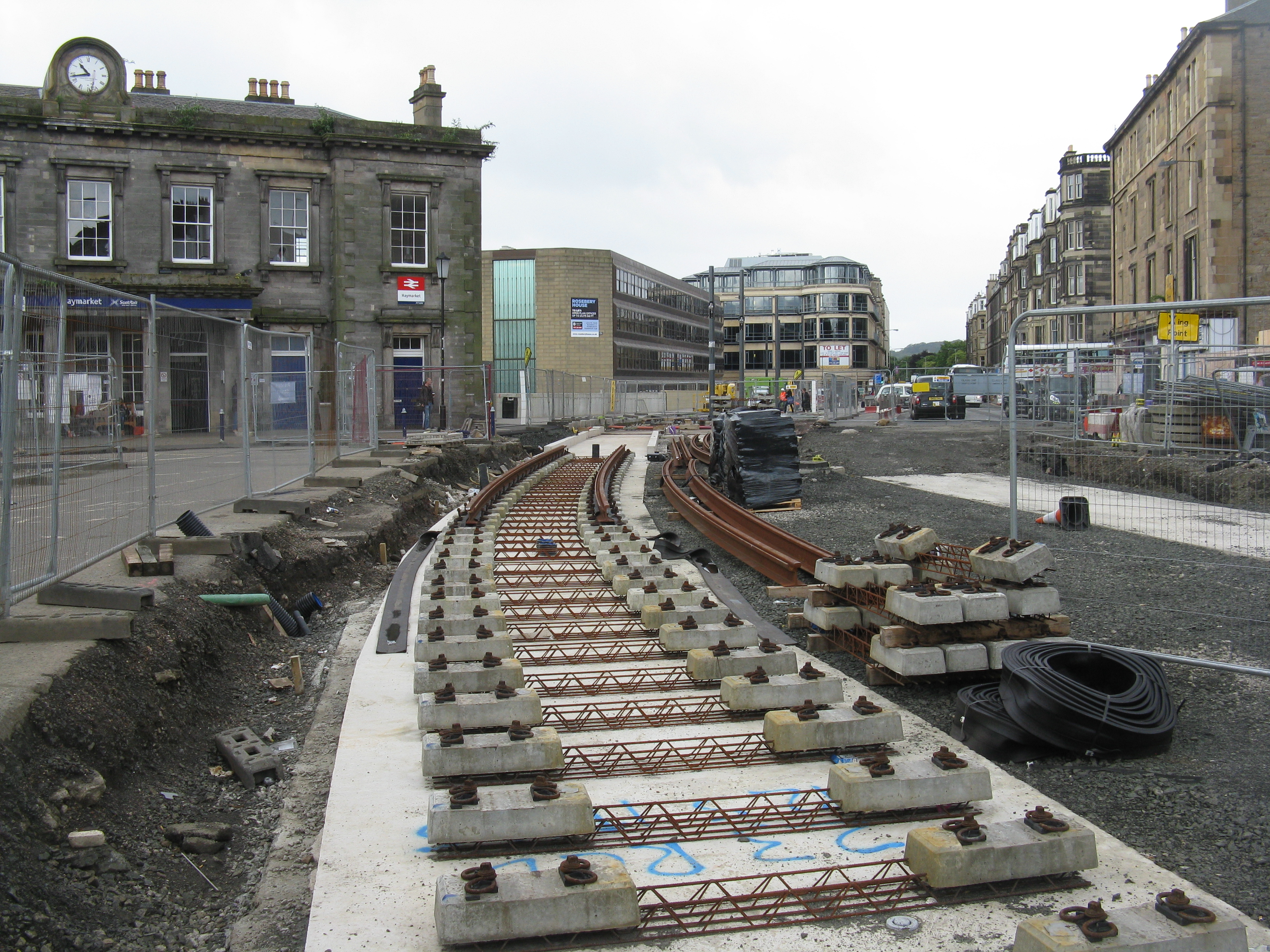 Construction works for the Edinburgh Trams at Haymarket. This is the view west along the curve along Clifton Terrace into Haymarket Terrace. At this point the tramway will enter its own dedicated lane for the future Haymarket stop, to be built in front of the three-storey office block (Roseberry House), before continuing down Haymarket Yards (taking a left turn in front of the larger office block). On the left is the entrance to the mainline railway station - new facade would also later be built in between it and Roseberry House.